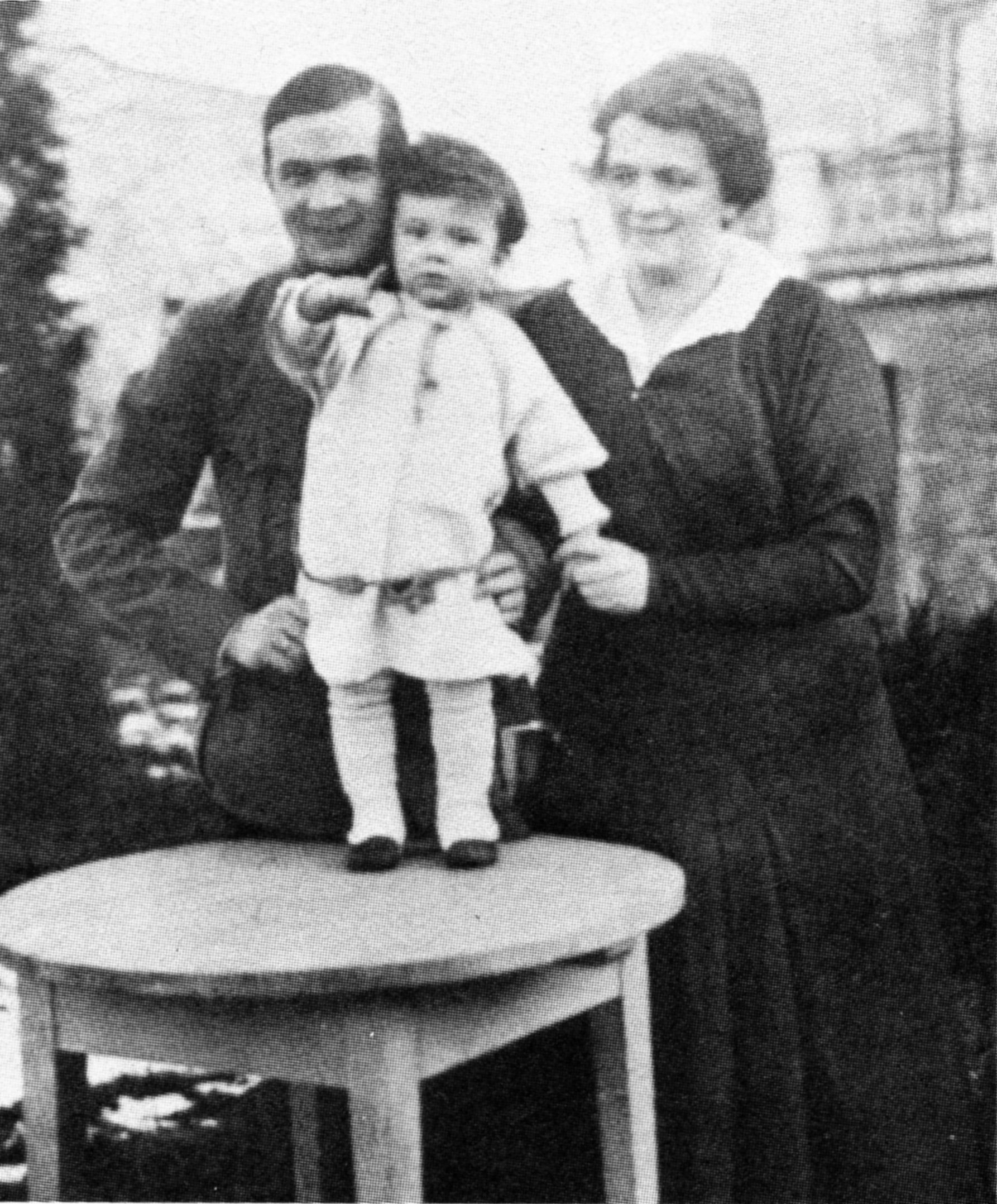 Peter Weiss (1916-1982) with his parents, summer 1917 in Przemyśl